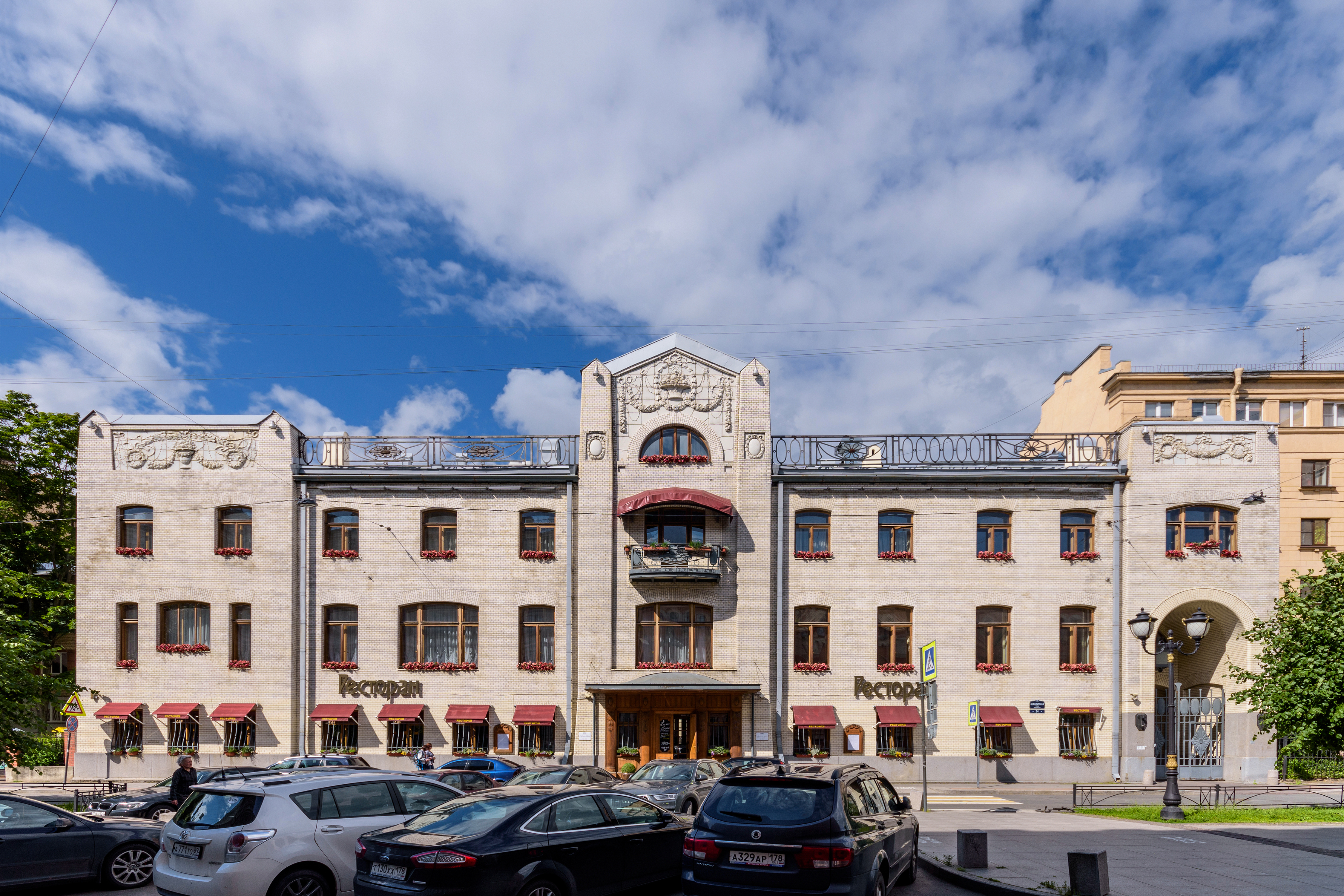 Kochubey Mansion in Saint Petersburg